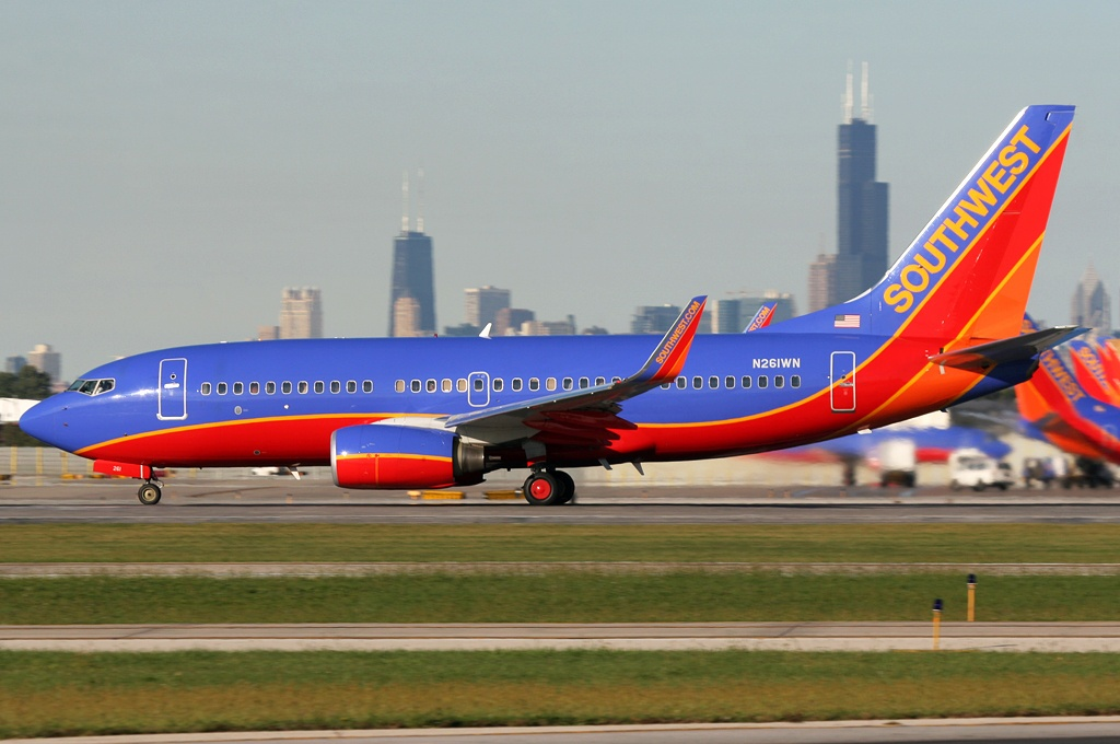 A Southwest Airlines Boeing 737-700 taxiing at Chicago Midway International Airport. Southwest is the dominant carrier at Midway, operating more than 225 daily flights out of 29 of Midway's 43 gates to over 45 destinations across the United States.